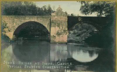 The historic Bridge of Isabel II in Imus, Cavite completed by the priest-engineer Matias Carbonell of the Recollects in 1857 during the Spanish colonial period. It was the site of the Battle of Imus River on September 3, 1896. (Scanned from an old book published in 1903.)